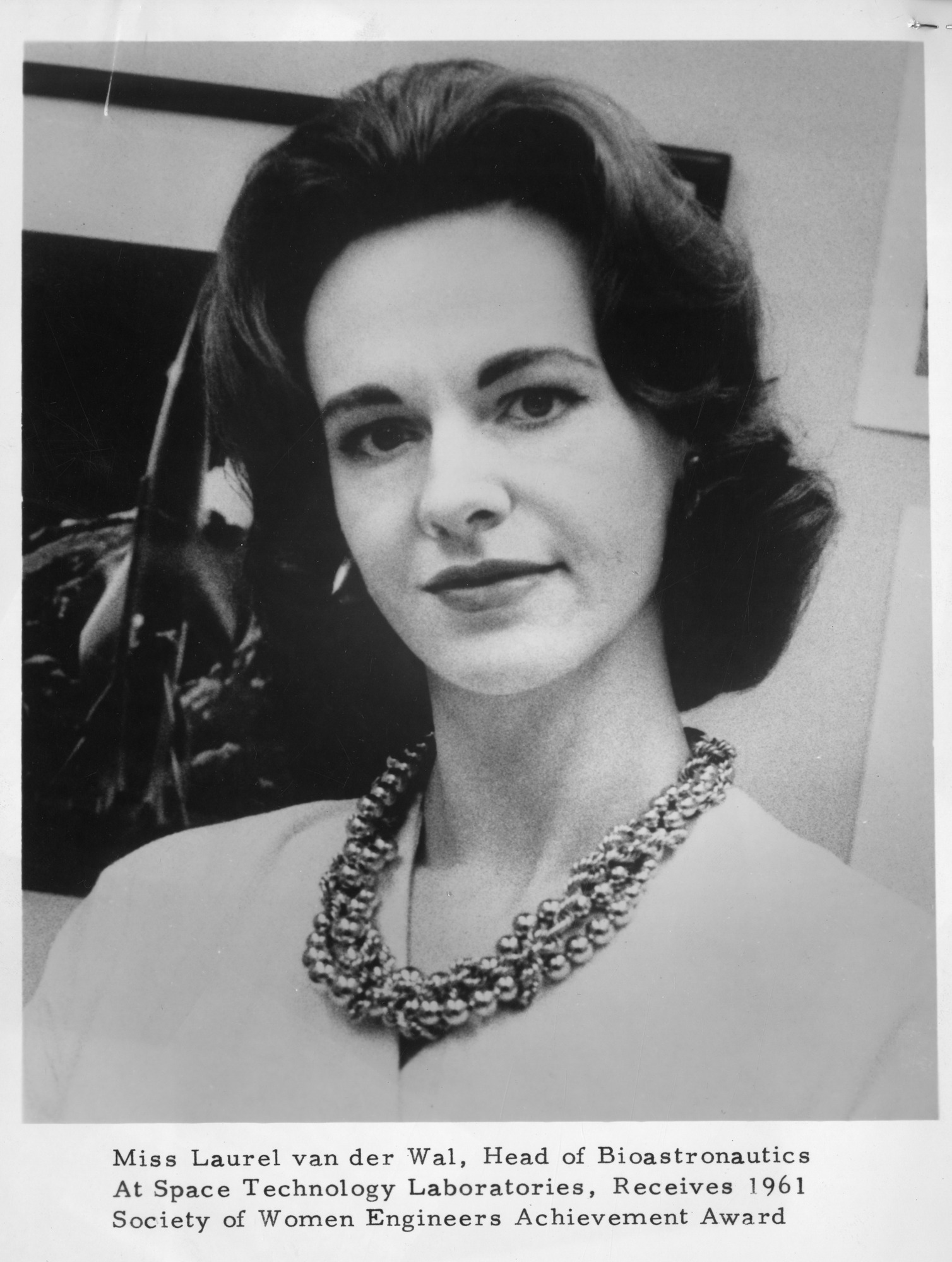 head of Bioastronautics at Space Technology Laboratories, Receives 1961 Society of Women Engineers Achievement Award""